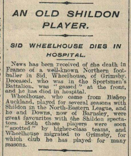 Obituary